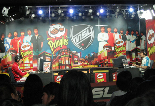 Pringles MSL